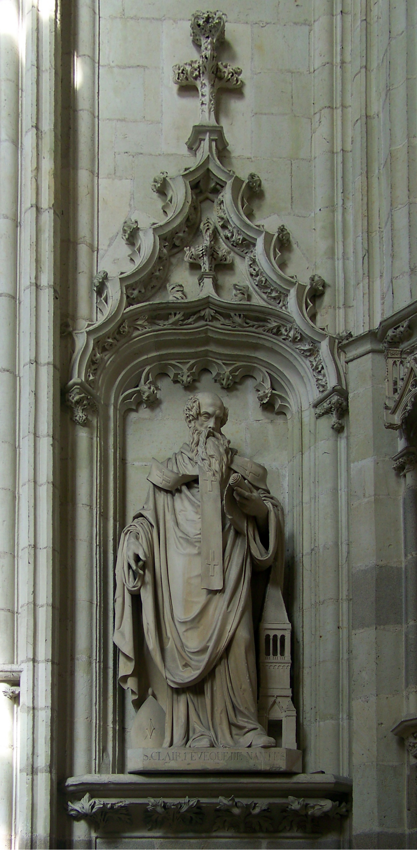 Saint Clair, first bishop of Nantes. Statue in the southern bay of the cathedral.